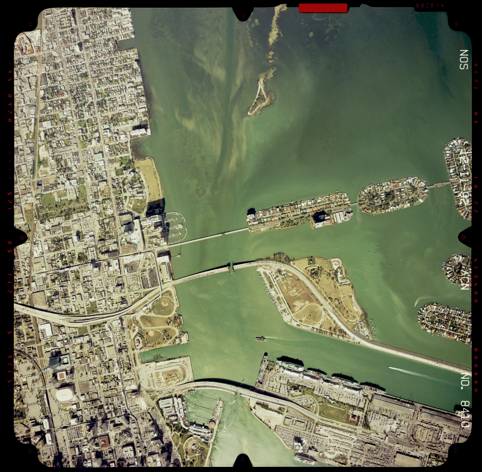 Aerial photograph 5WJ68410, 1992. Scale 1:15000, azimuth 189.7, 25.80139° N, 80.17445° W. (Coastal Aerial Photography, NOAA/National Ocean Service, Downloaded from